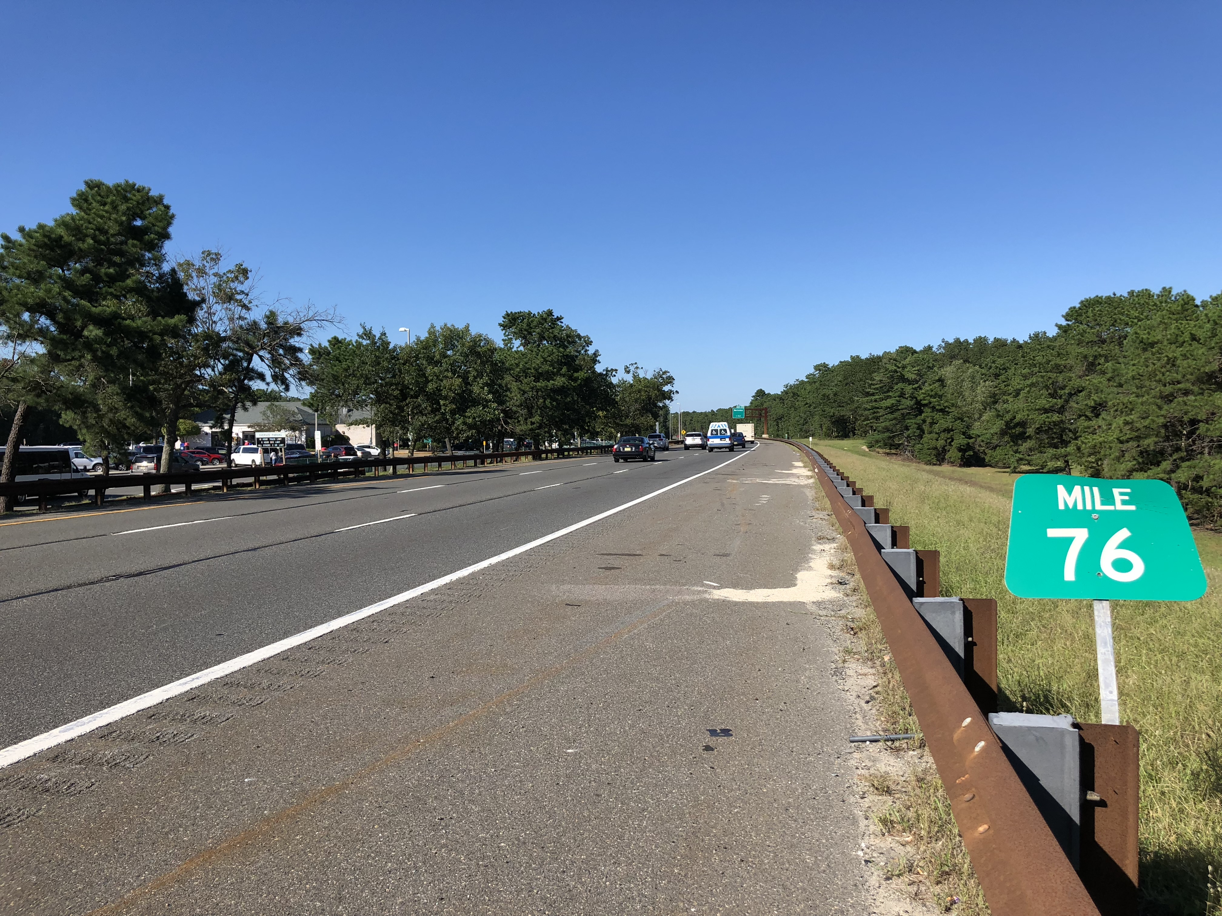 View north along New Jersey State Route 444 (Garden State Parkway) between Exit 74 and Exit 77 in Lacey Township, Ocean County, New Jersey